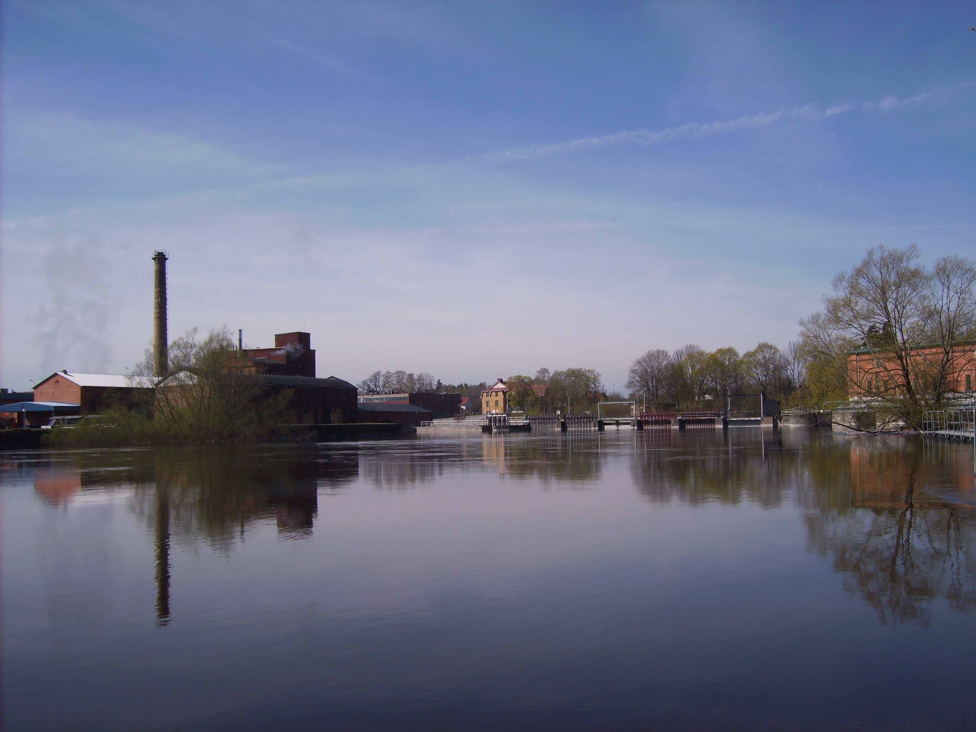 The factory Fiskeby bruk, established 1637 , in Fiskeby, Norrköping, Sweden.